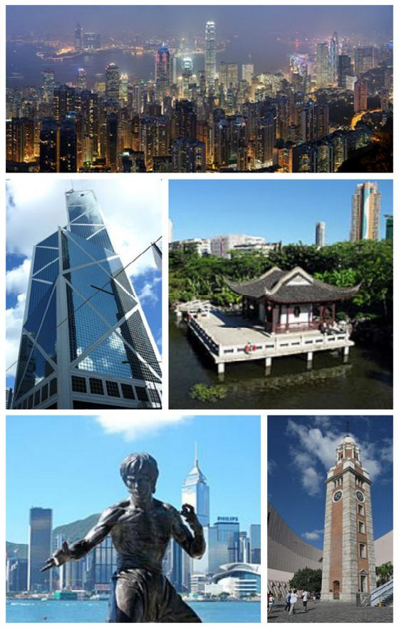 Top: Panoramic of Hong Kong from Victoria peak. Centre left: Bank of China Tower. Centre right: Kowloon City Walled Park. Down left: Bruce Lee statue in Avenue of Stars. Down right: Clock tower.